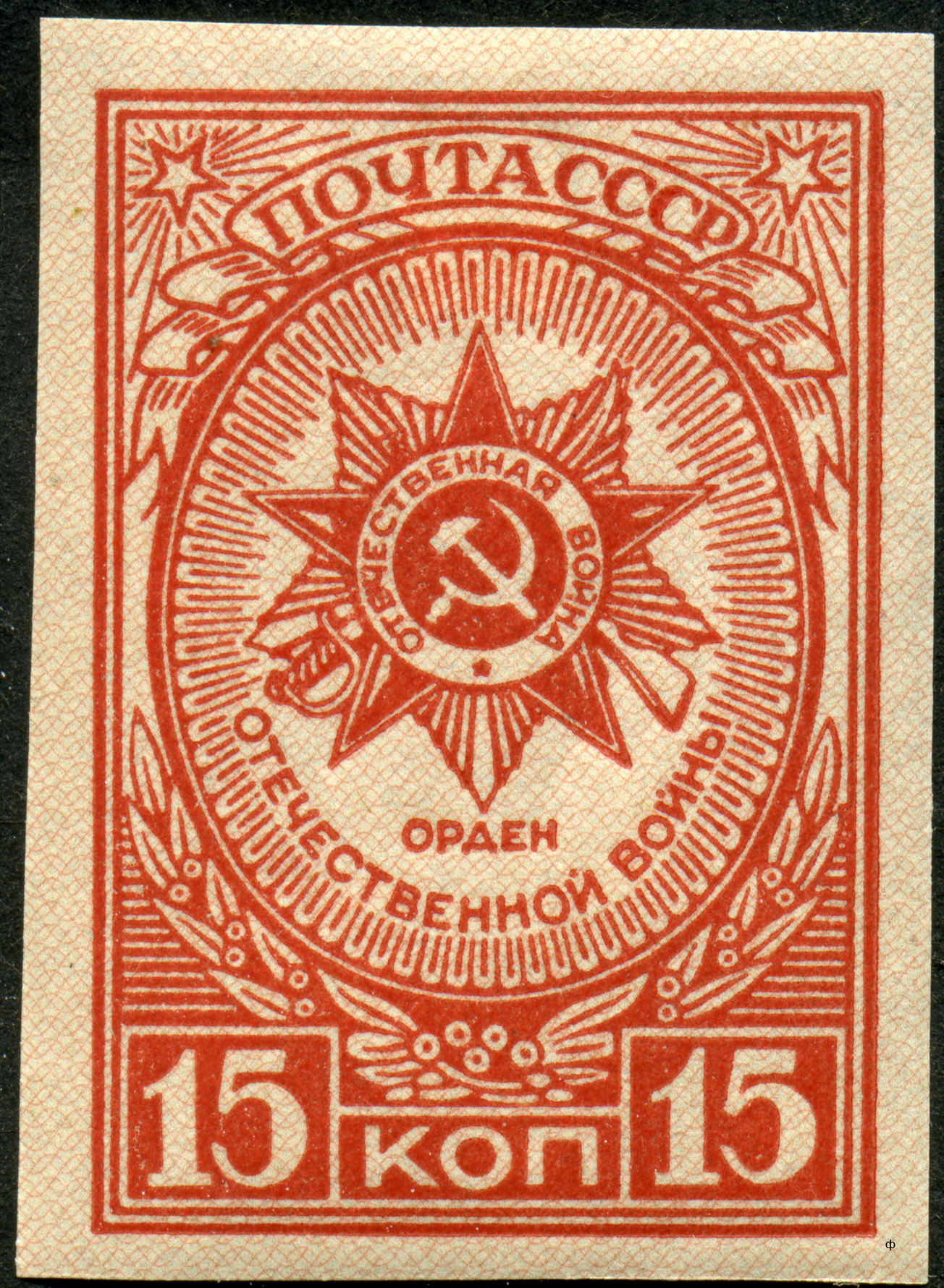 A USSR stamp, Awards of the Soviet Union